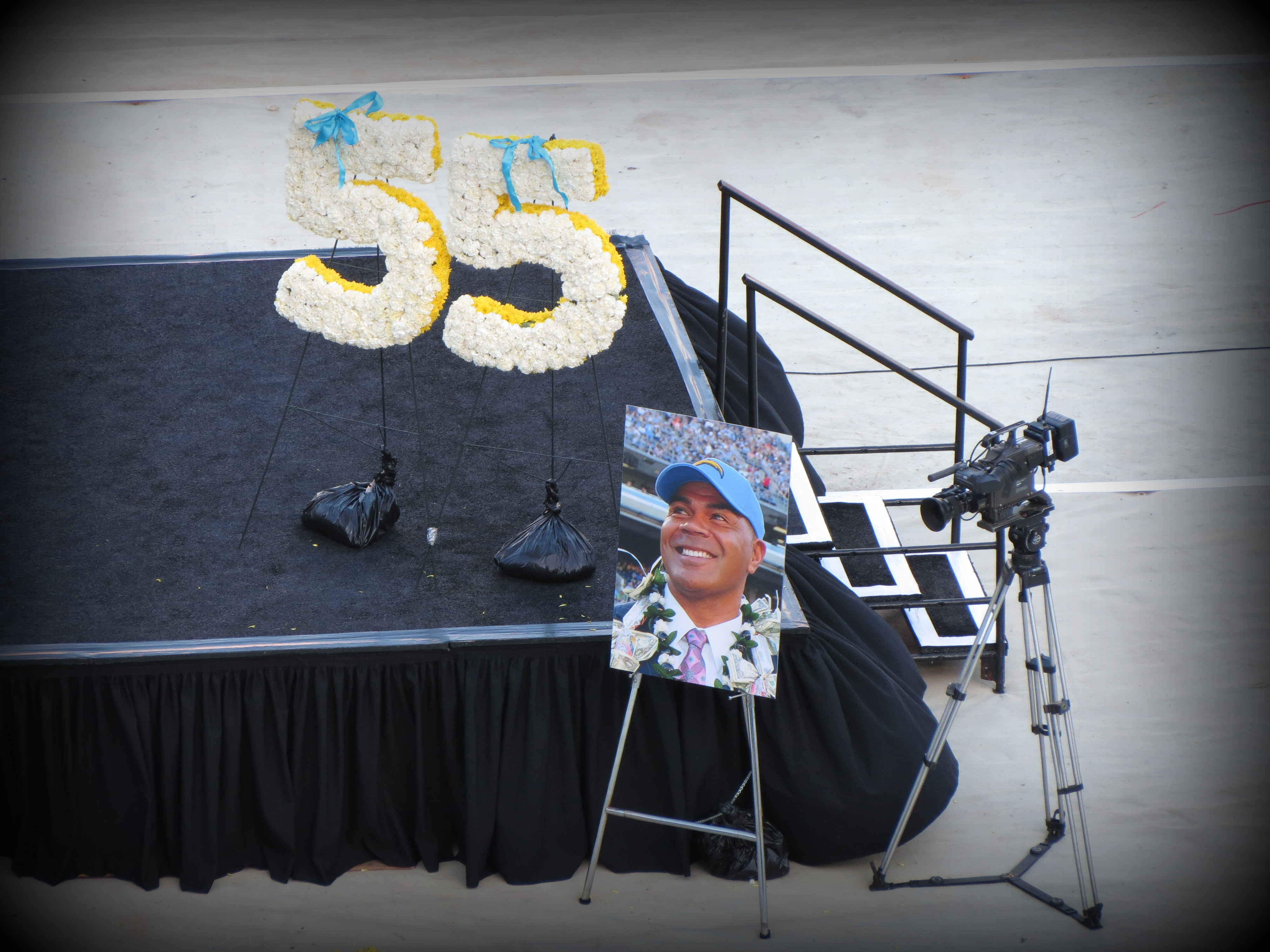 Celebration of Life for Junior Seau, May 11, 2012.